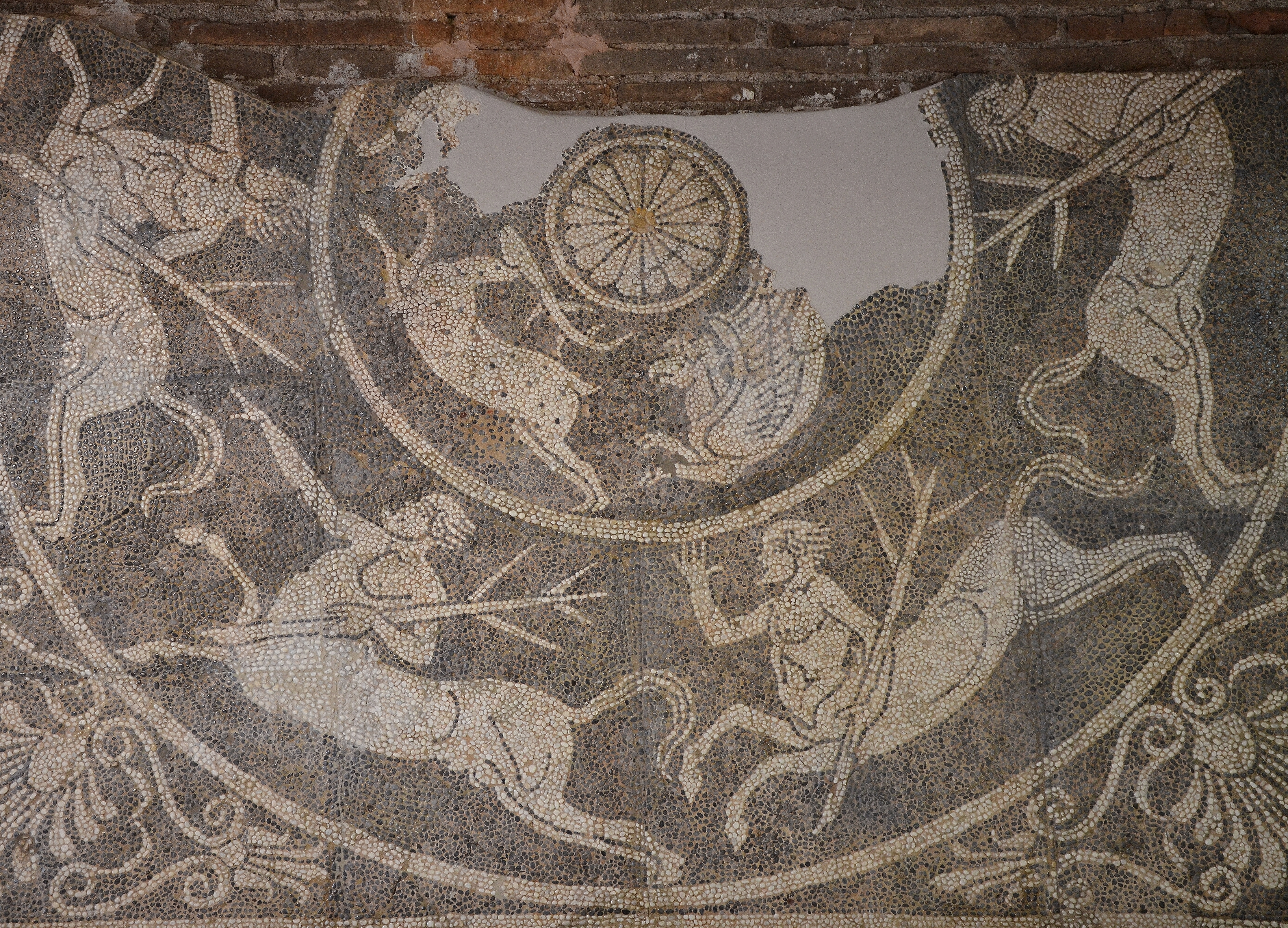 Fragment of a pebble mosaic floor depicting Centaurs and animals, from Ancient Sikyon, 4th century BC, Archaeological Museum of Sikyon, Greece